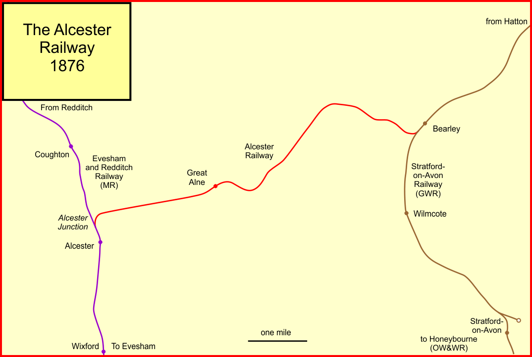 System map of the Alcester Railway, Warwickshire, England, in 1876